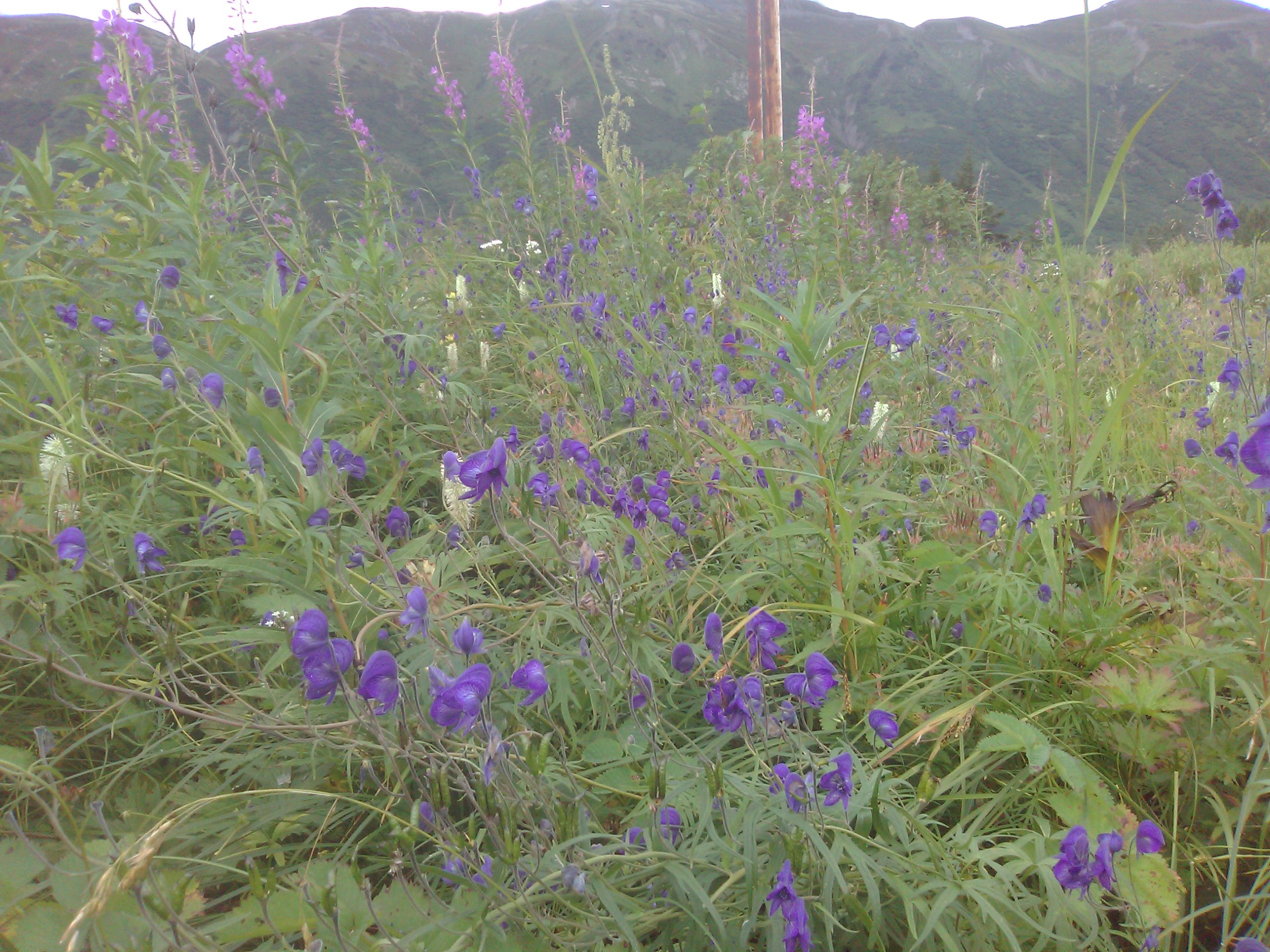 Aconitum delphinfolium (wolf's bane, monkshood, or sometimes locally called parrot's beak) growing in its natural habitat, in relative rocky, alpine tundra/forest transition areas in mountainous terrain, with rich, wet soil and good drainage, especially on hill tops or sides with a rocky or sandy, underlying base. The plant is generally found amongst plants like crow berry, false hellebore, alpine foxtail, alpine rice, yarrow, nootka lupine, alpine lupine, alpine bistort, mountain hemlock, devil's club, cow parsnip, fireweed and other plants. This photo was taken at Turnagain Pass, Alaska in late summer, when the plant blooms and the flowers open for bees (usually bumble bees, but occasionally honey bees).